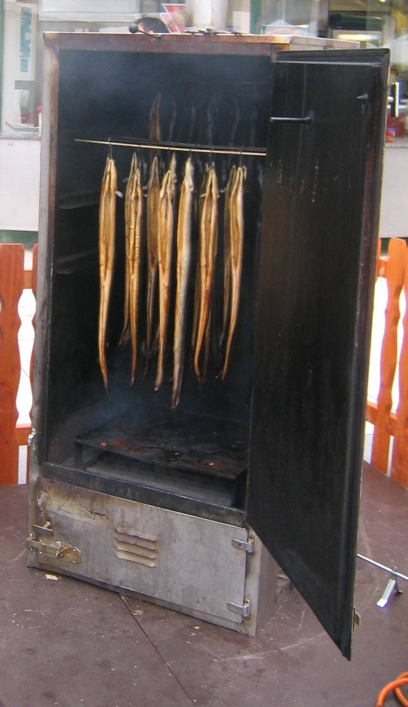 Smoking of fish (eels) on Alexanderplatz, Berlin, Germany.